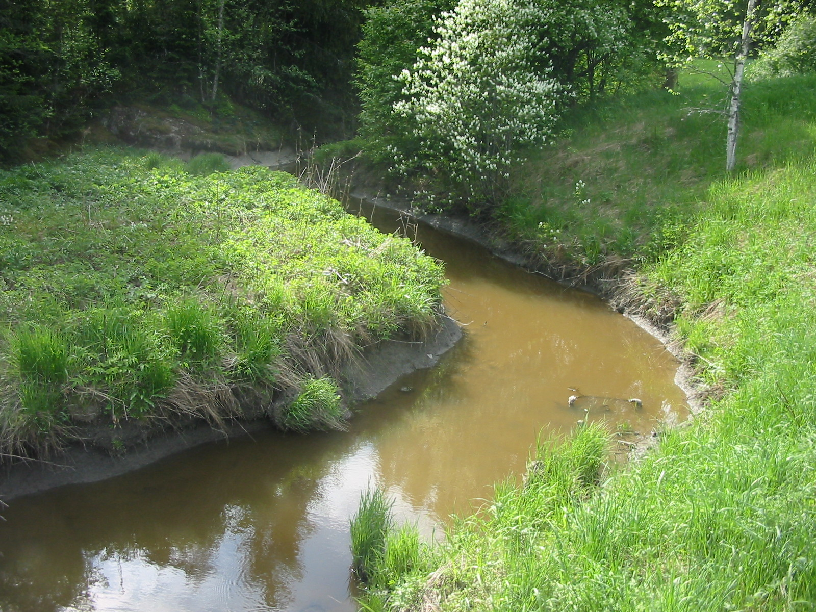 Kuninkoja in Turku